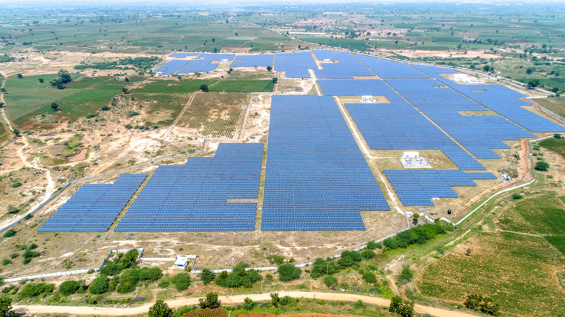 DCIM\100MEDIA\DJI_0079.JPG